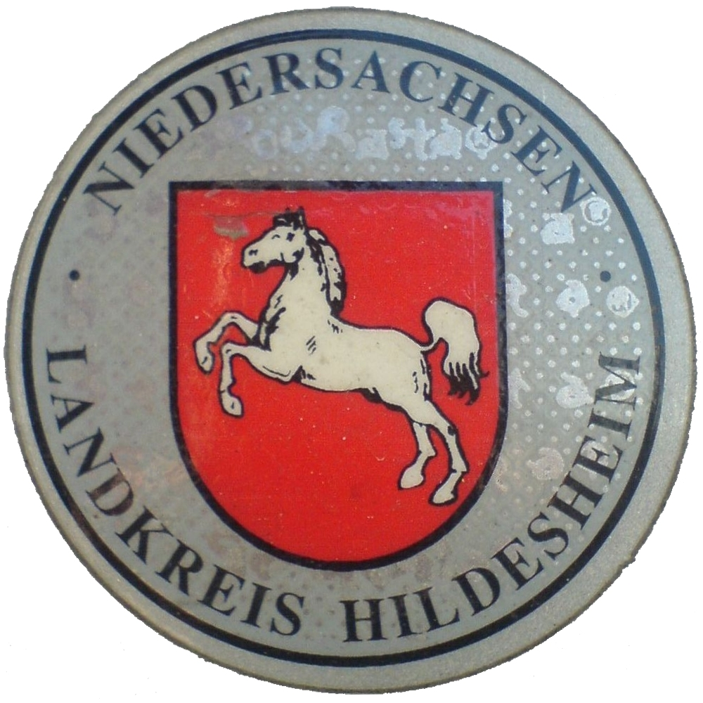 Seal of a German motor vehicle registration plate: district of Hildesheim, Lower Saxony, Germany.